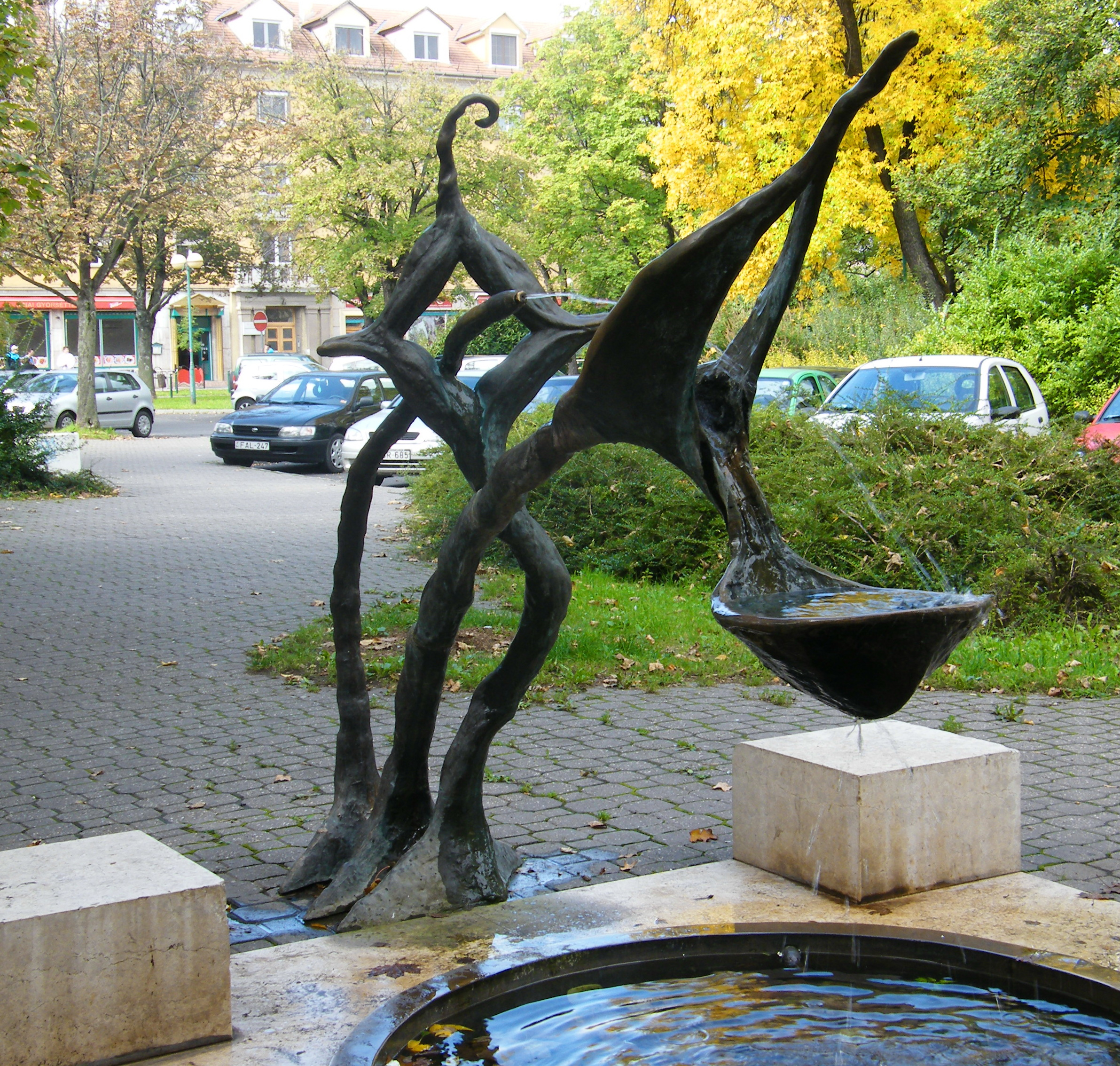 "Vízi virág" fountain, Dunaújváros